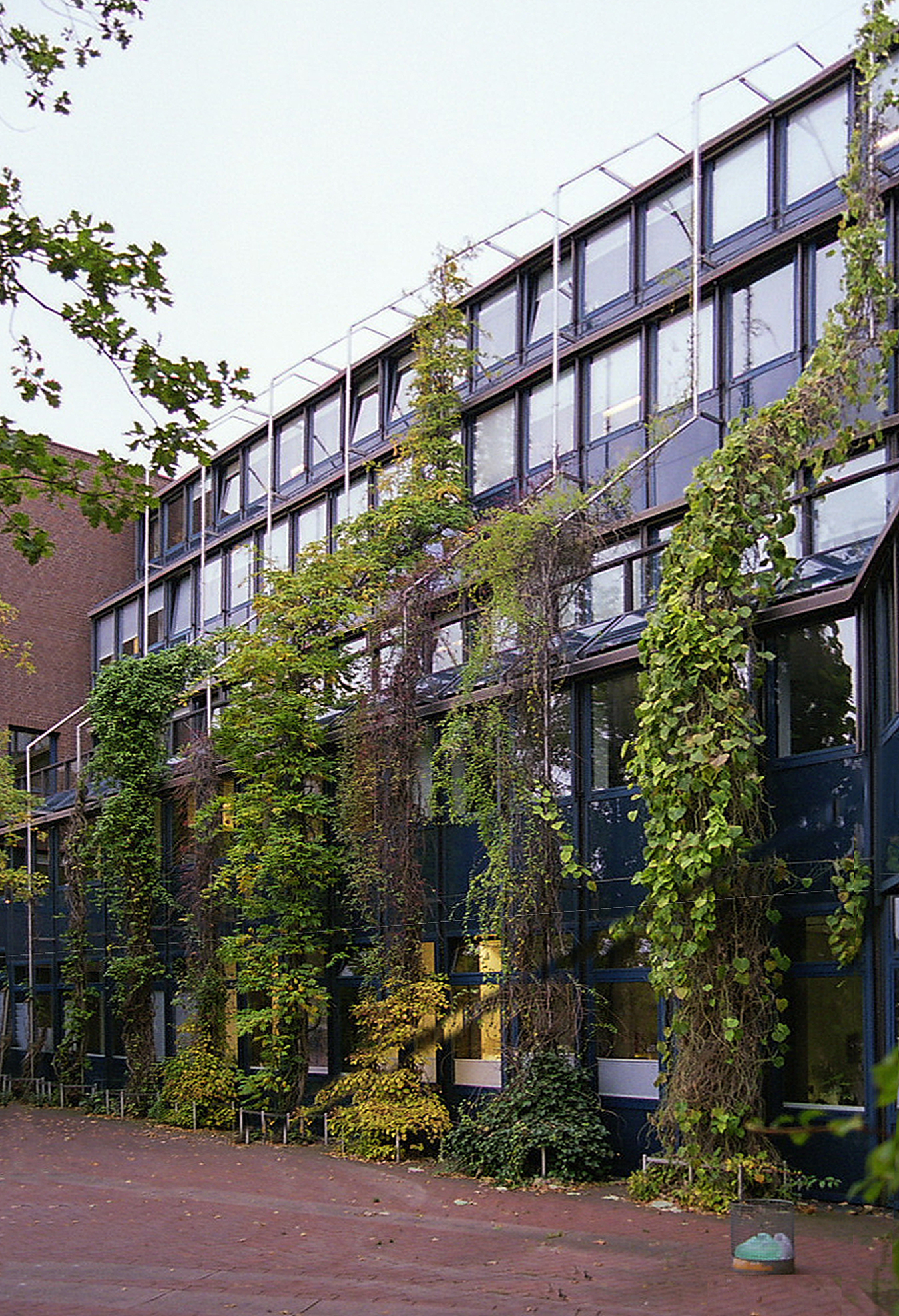 Facade greening with supported climbers